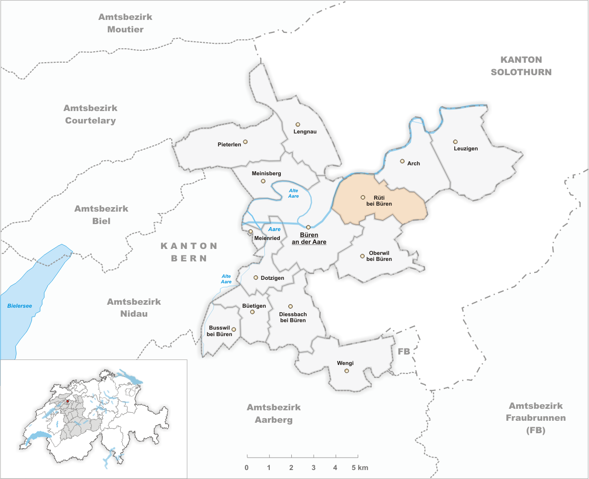 Municipality Rüti bei Büren